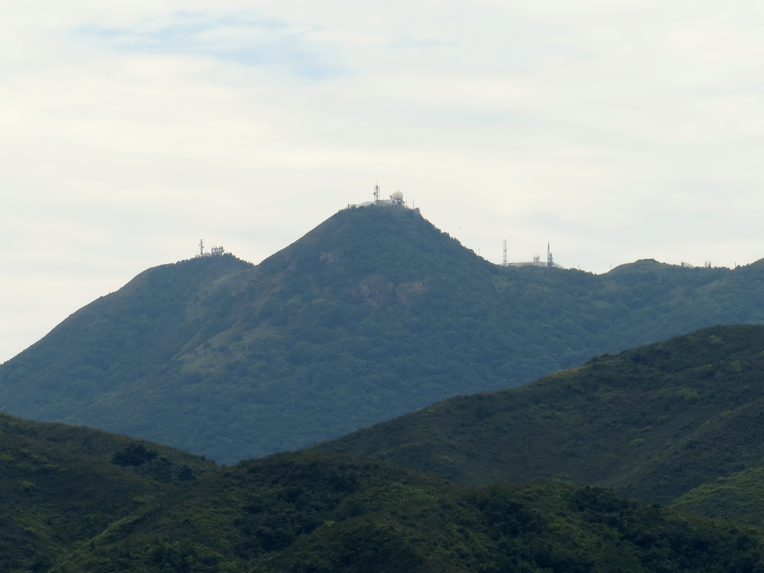 Tate's Cairn, north view, Hong Kong. Tate's Cairn Meteorological Station is at the center.